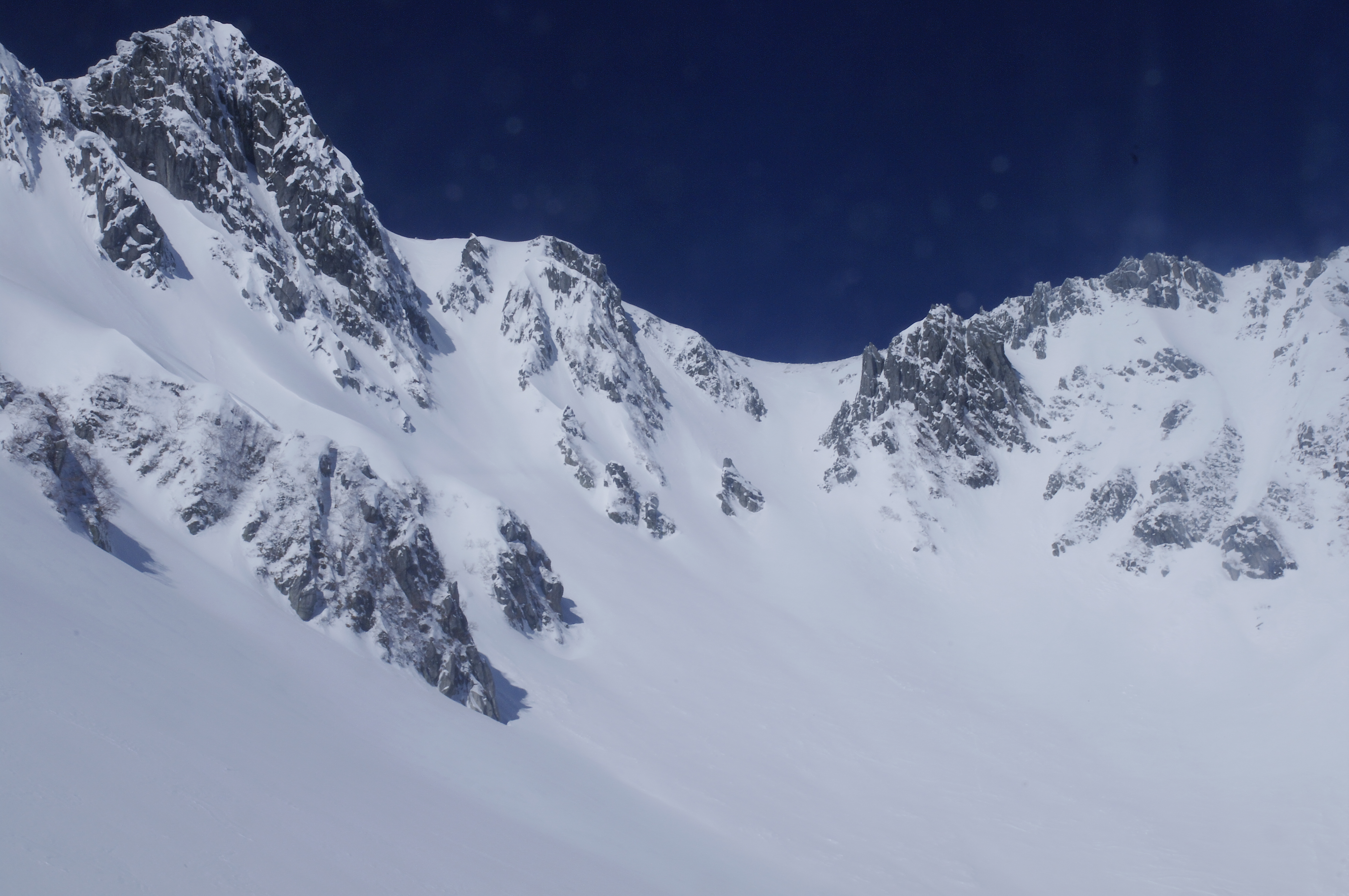 Mount Hoken and Senjojiki Cirque in the Kiso Mountains, Japan, in full snow. Taken with +2EV exposure compensation